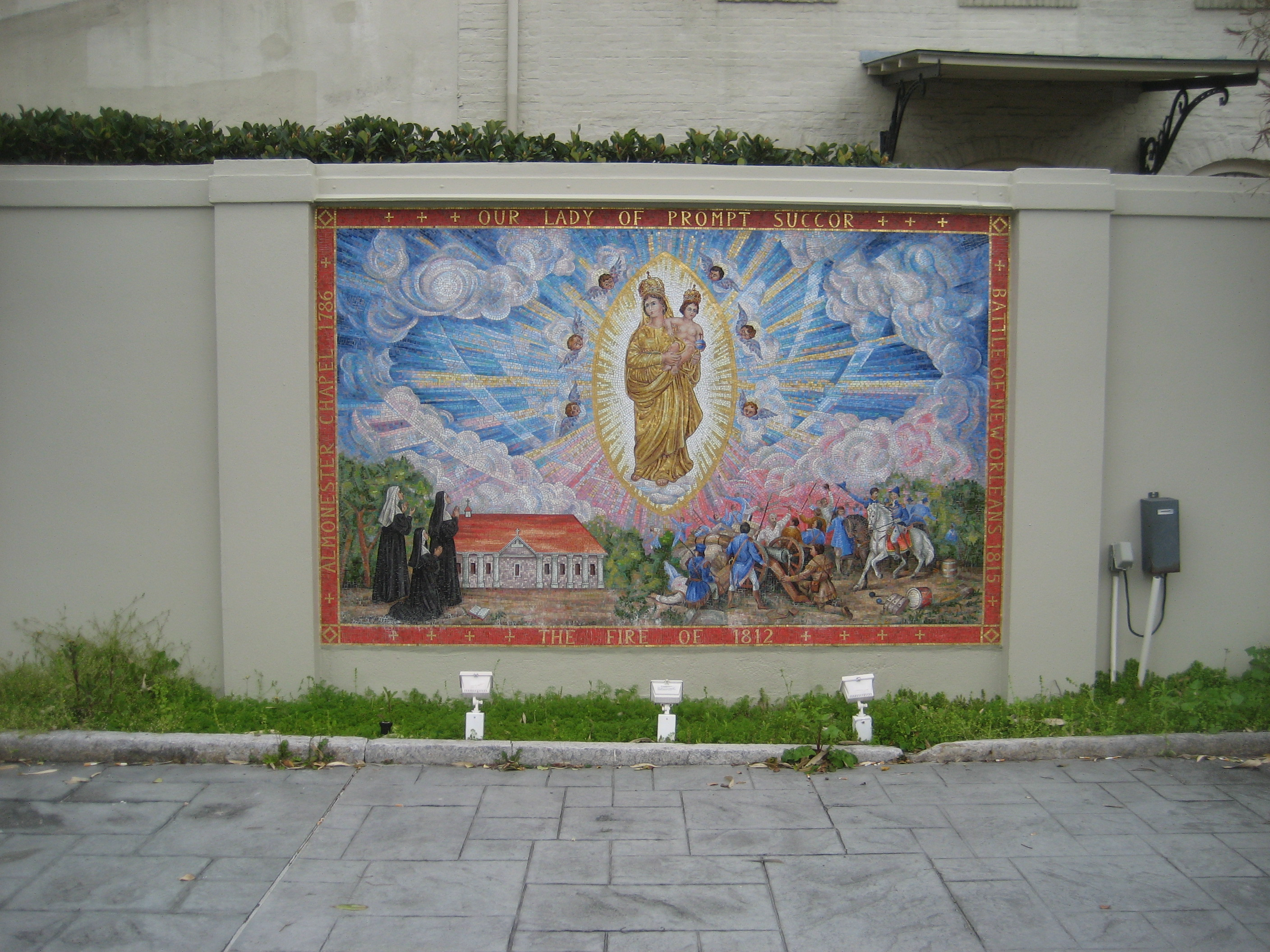 Old Ursulines Convent complex, French Quarter, New Orleans. Exterior view within complex walls on Riverwards side. Our Lady of Prompt Succor mosaic.